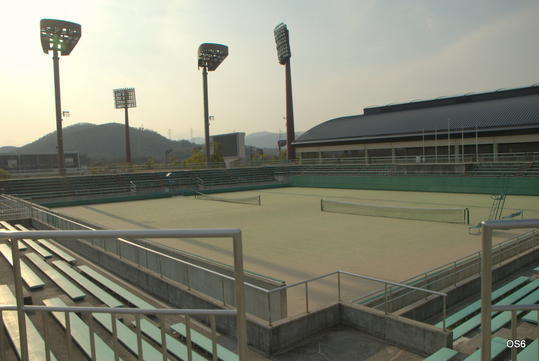 県立びんご運動公園03 Bingo regional sports park